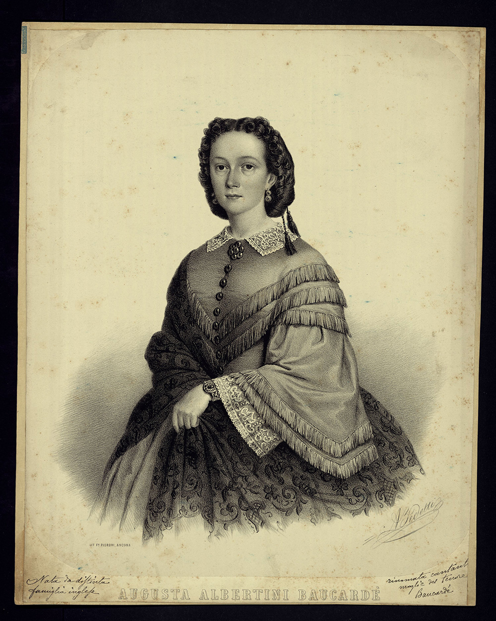 Portrait of Augusta Albertini Baucardè, soprano (1827-1898).